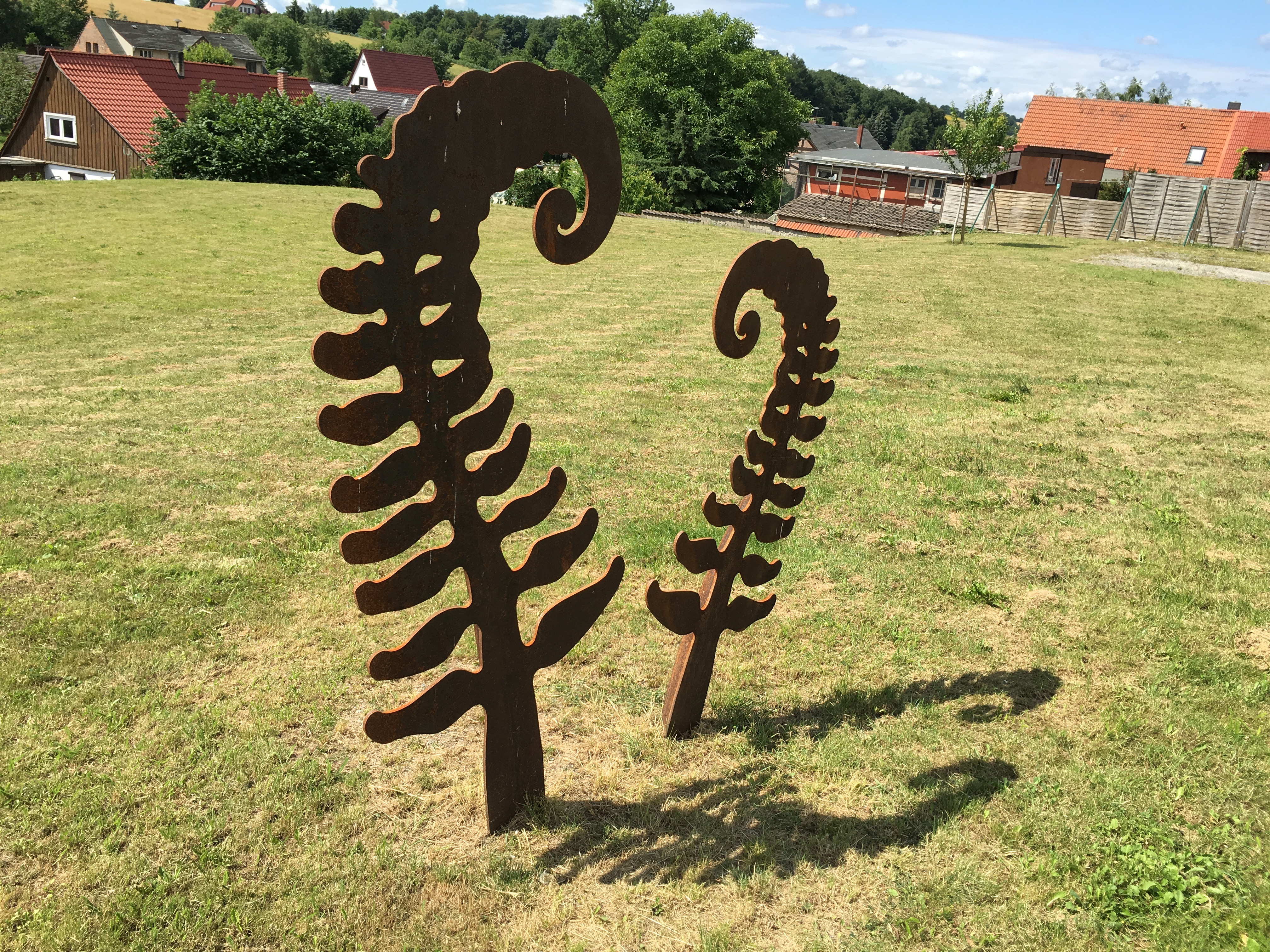 Skulptur Karl Blossfeldt Fotograf